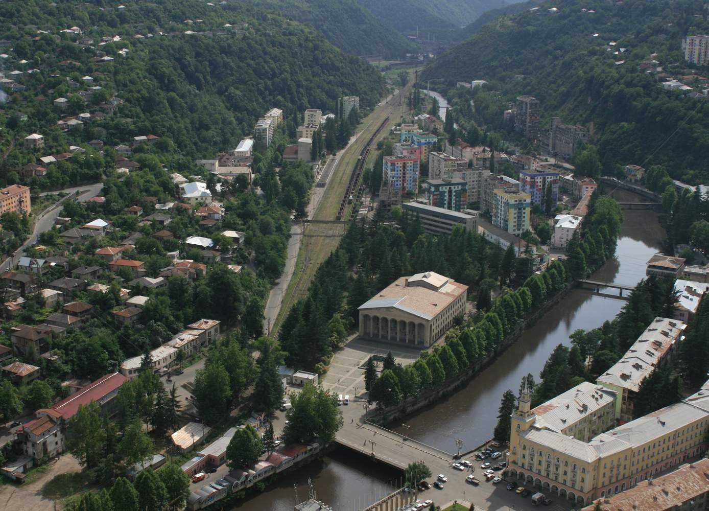 Chiatura, Georgia